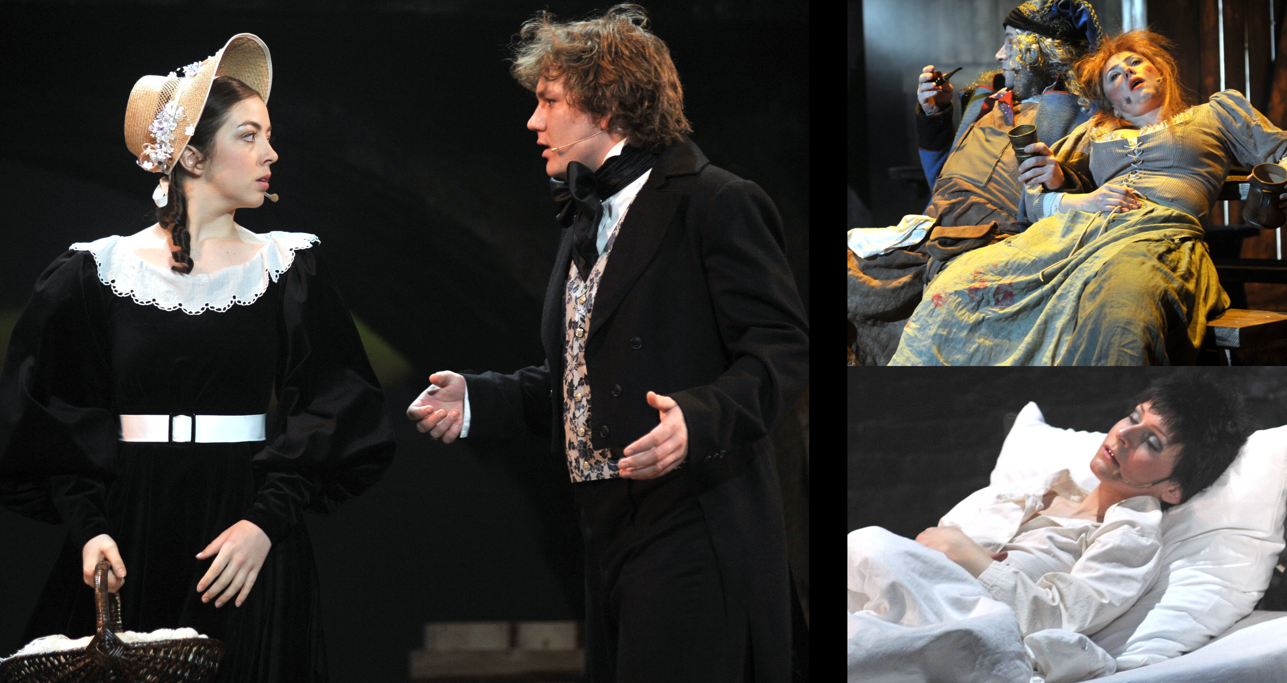 The musical Les Misérables by Městské divadlo Brno